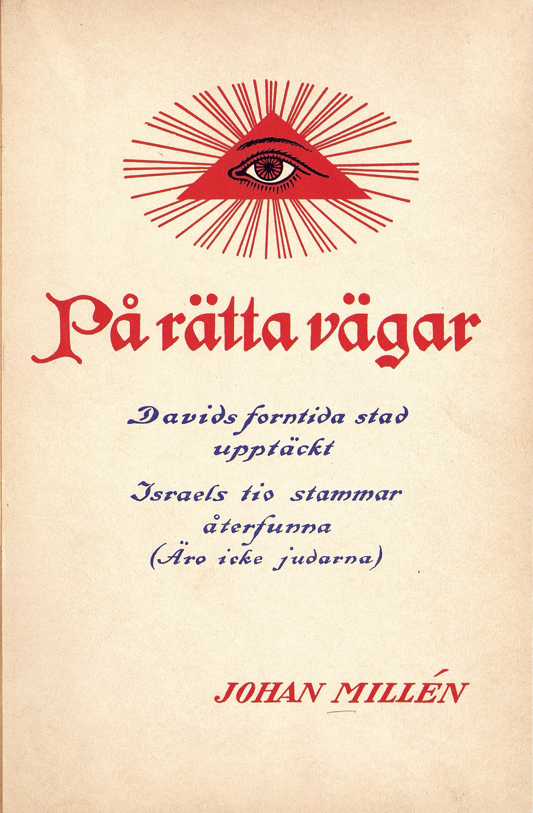 Cover of a book.